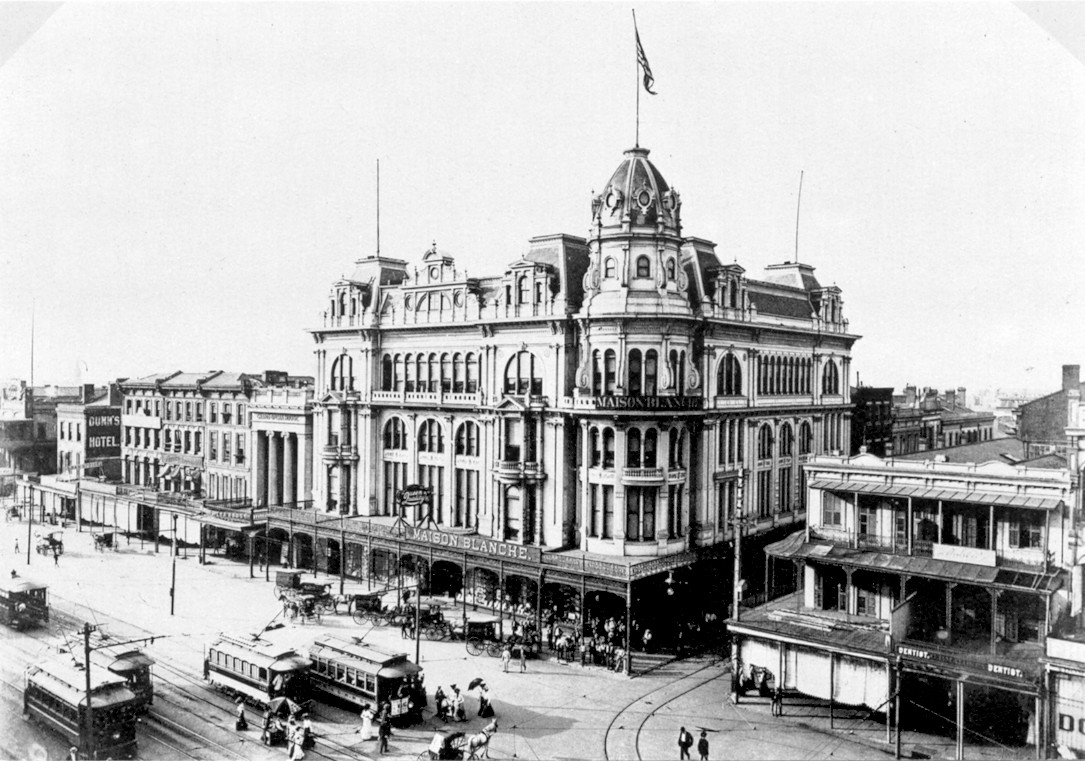 New Orleans: The old Maison Blanche Department Store building on Canal Street at Dauphine in 1898. Horse and carriage traffic visible on street, electric streetcars on the neutral ground.